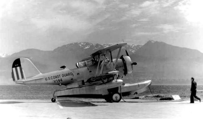 A U.S. Coast Guard Grumman JF-2 Duck (USCG serial V144) at Port Angeles, Washington (USA), in the late 1930s/early 1940s.